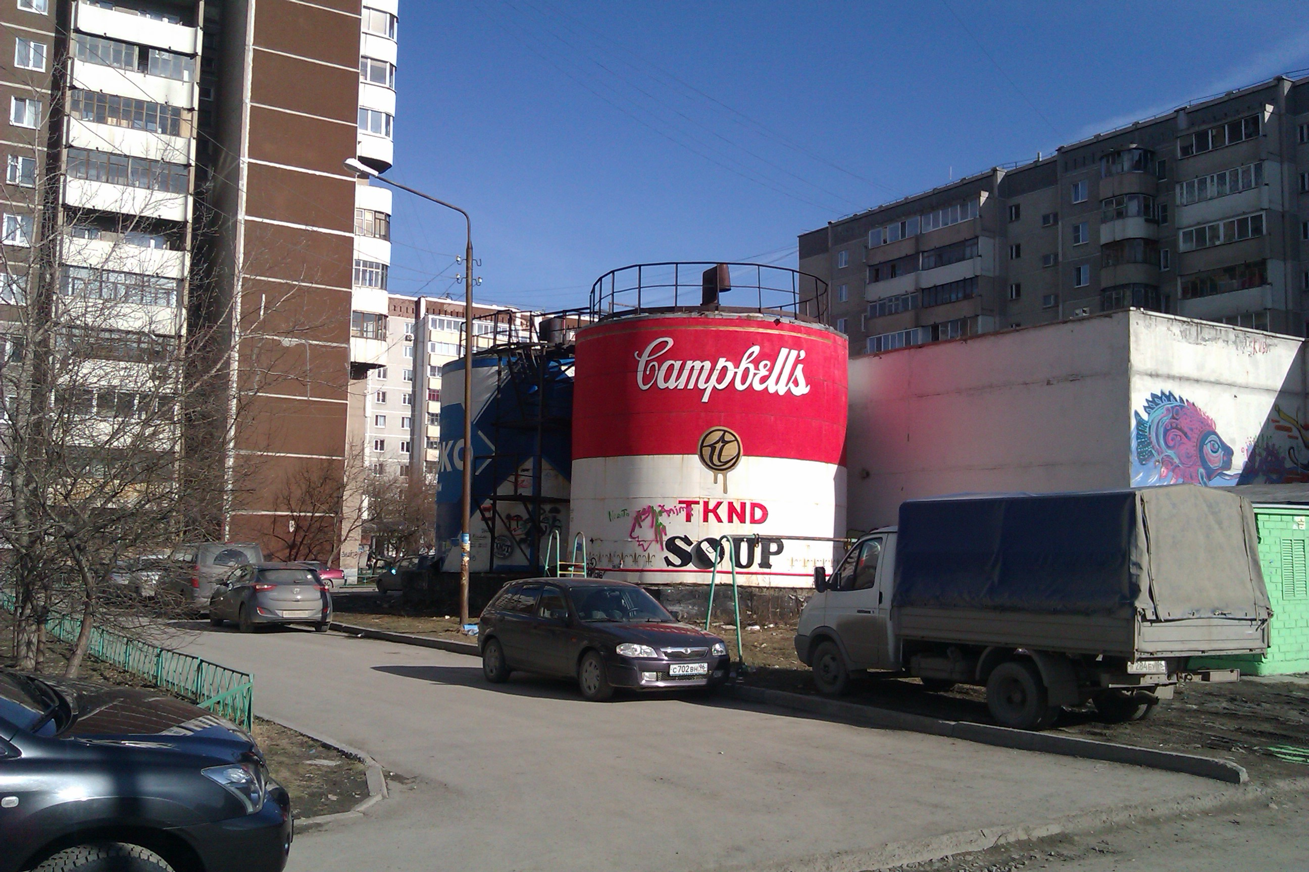 Streetart in Botanichesky, Ekaterinburg